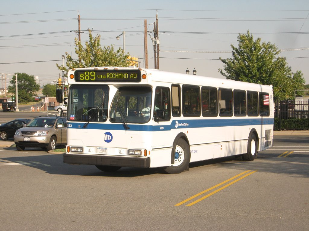 NYC Transit Authority #6323 pulls into the 34 St HBLR station in Bayonne, NJ, on the S89 line. The exact location is 33 Street (which ends in the station lot) and Prospect Avenue.